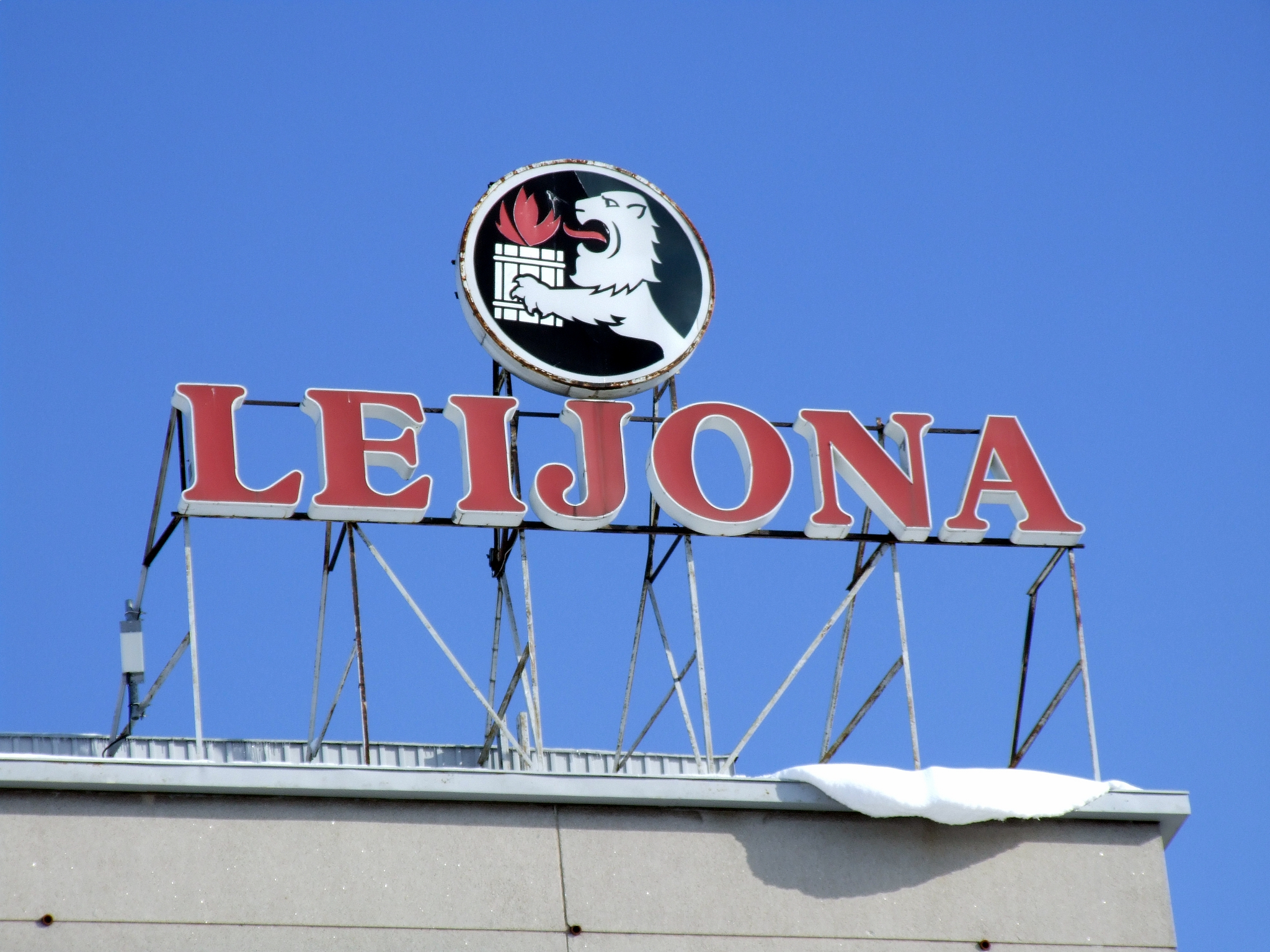 The neon sign of the Leijona tar-flavoured pastille in Tuira, Oulu, Finland in Aprlin 2006. The sign has been under repair since September 2008.